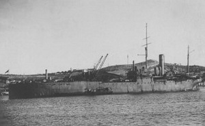 Ark Royal (II) 1914 year